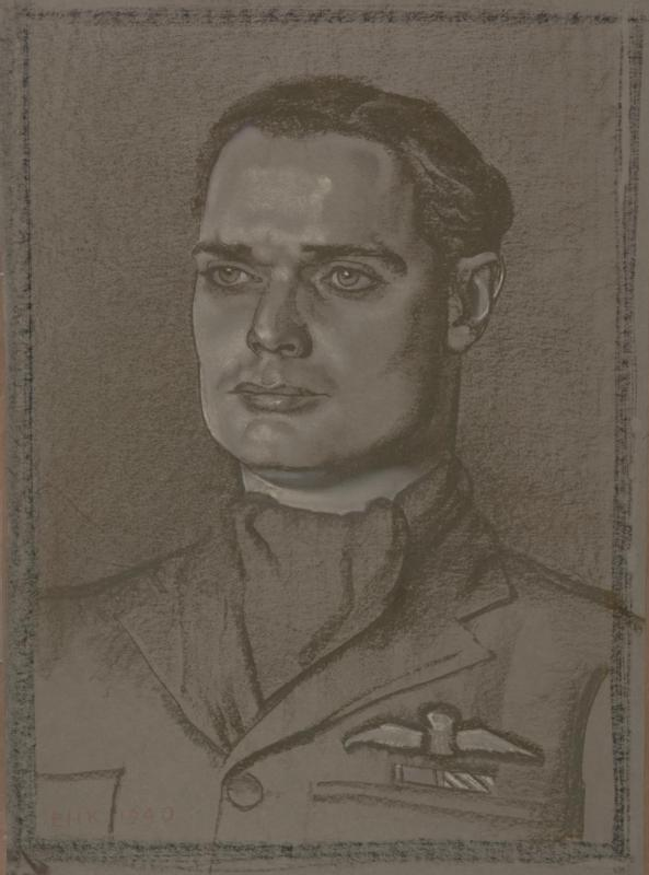 A head and shoulders portrait of Bader in RAF uniform and a cravat.